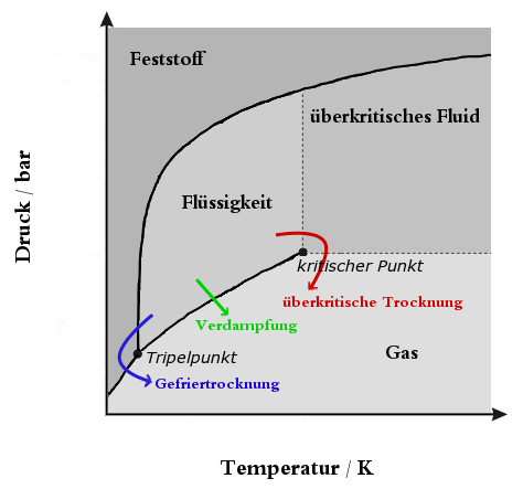 phase diagram of different drying processes